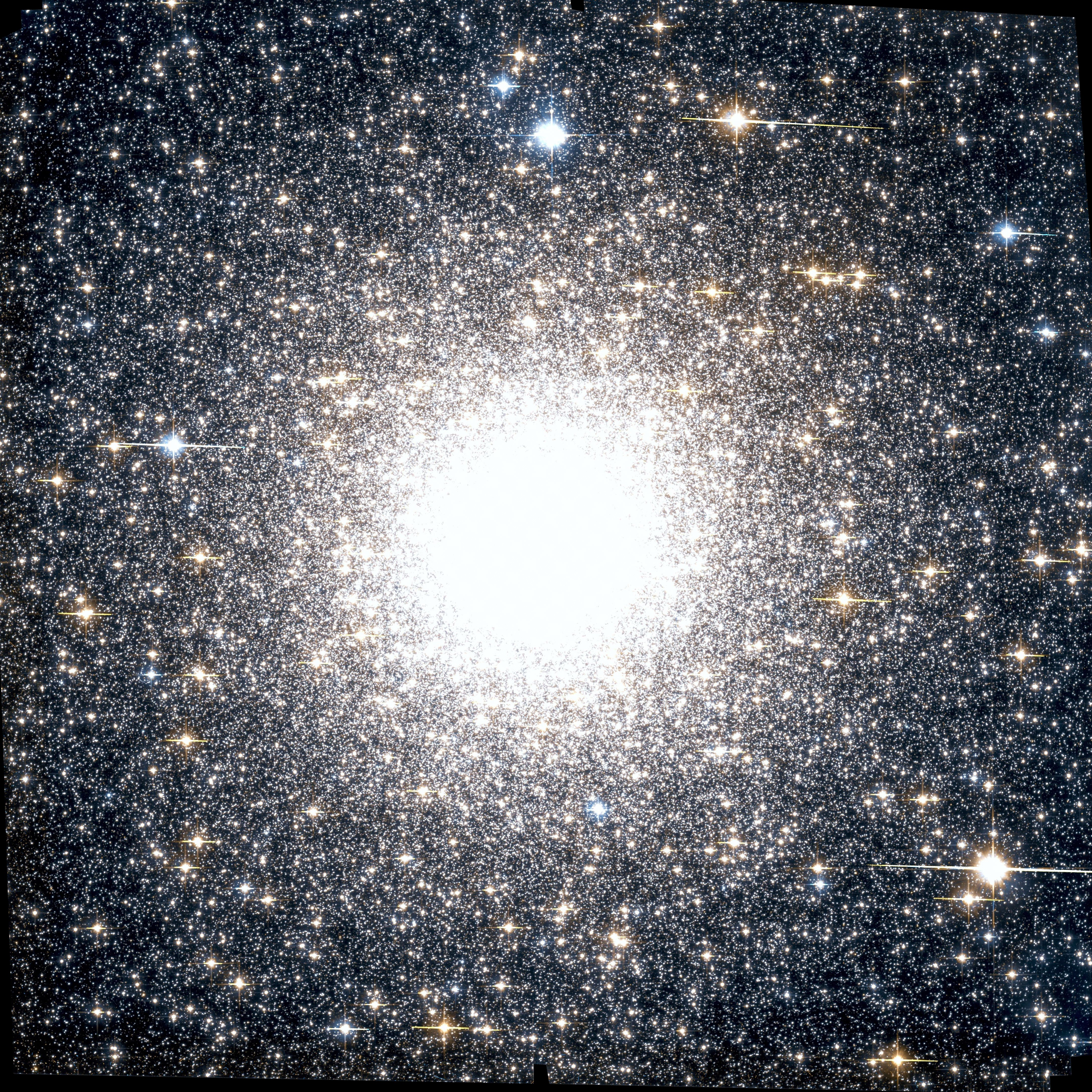 NGC 6388 by Hubble space telescope